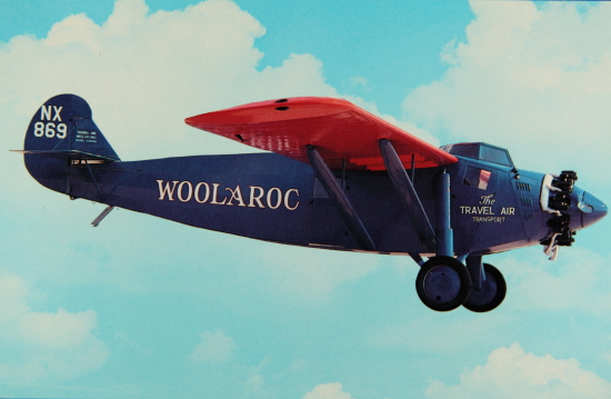 Travel Air 5000 Woolaroc in colour